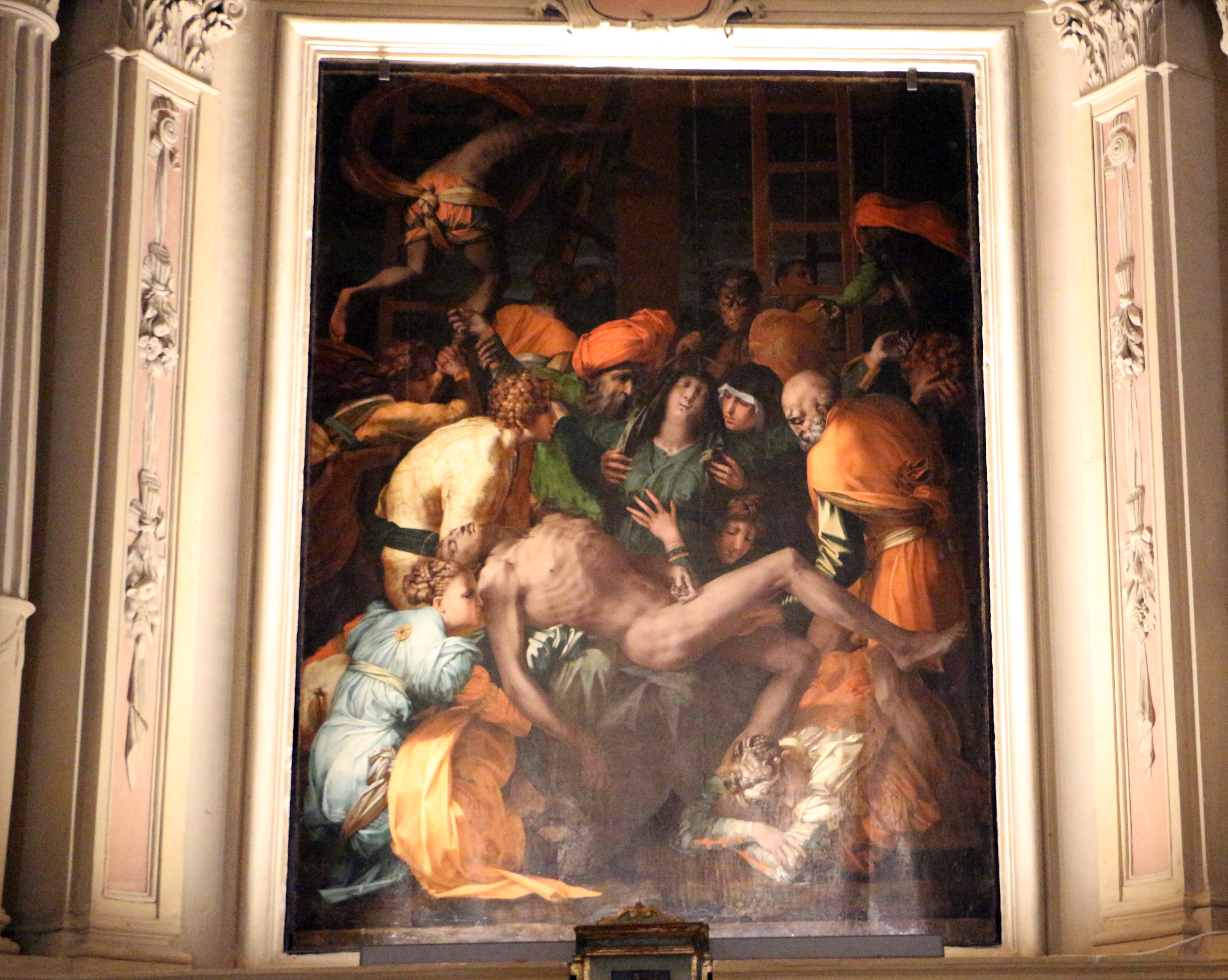 Deposition from the Cross by Rosso Fiorentino